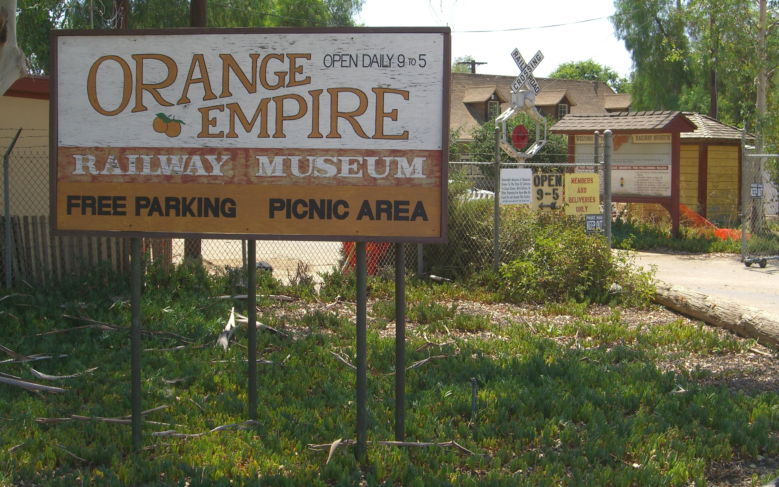 Entrance of the Orange Empire Railway Museum in Perris. Taken 8/4/03 by User:Pretzelpaws with a Casio Exilim EX-Z750 camera. Cropped and brightened 8/28/05 using the GIMP.